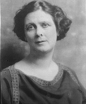 Title Portrait photograph of Isadora Duncan Contributor Names Genthe, Arnold, 1869-1942, photographer Created / Published between 1916 and 1942; from a negative taken between 1916 and 1918. Subject Headings - Duncan, Isadora,--1877-1927. Format Headings Lantern slides. Portrait photographs. Notes - Title devised. - Purchase; Genthe Estate; 1942 or 1943. - ID: LC-G432-1476-N; between 1916 and 1918 Medium 1 slide : lantern ; 4 x 5 in. or smaller. Call Number/Physical Location LC-G4085- 0394 [P&P]